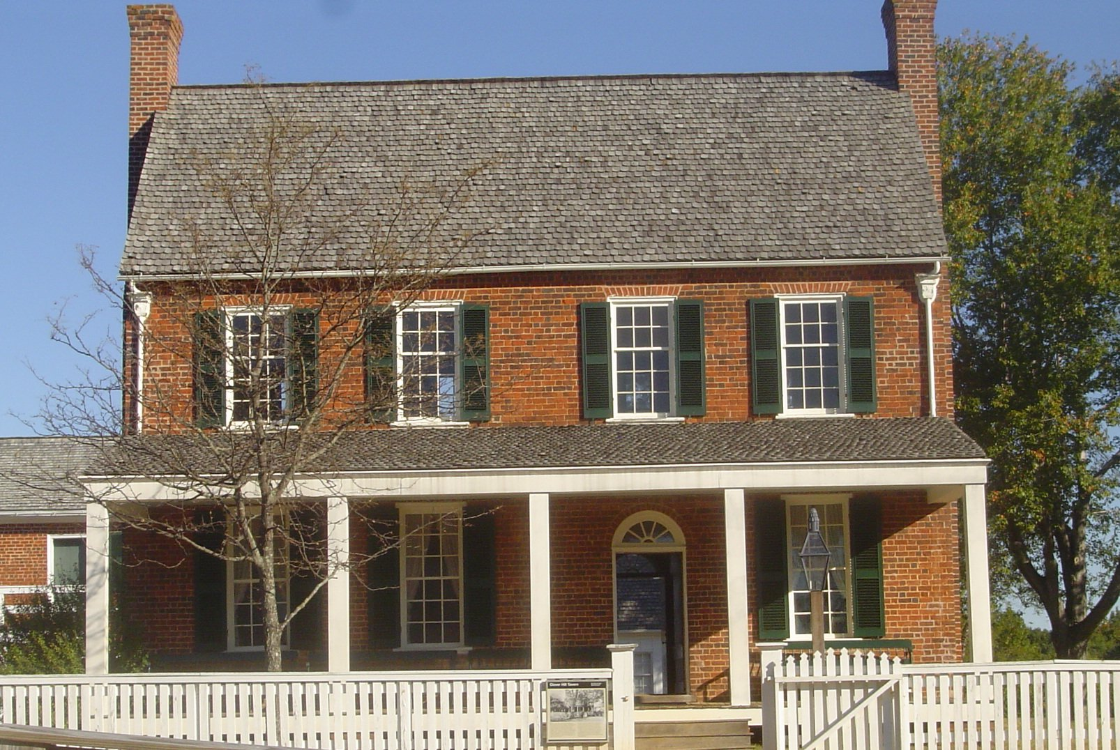 Clover Hill Tavern within the Appomattox Court House National Historical Park